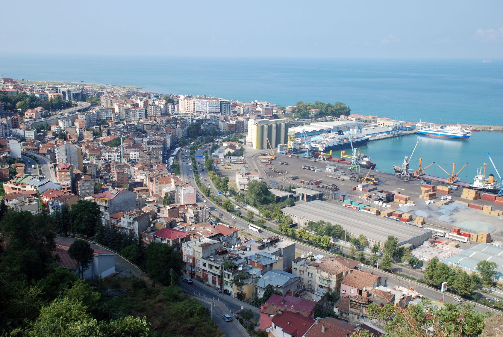 Trabzon, harbour